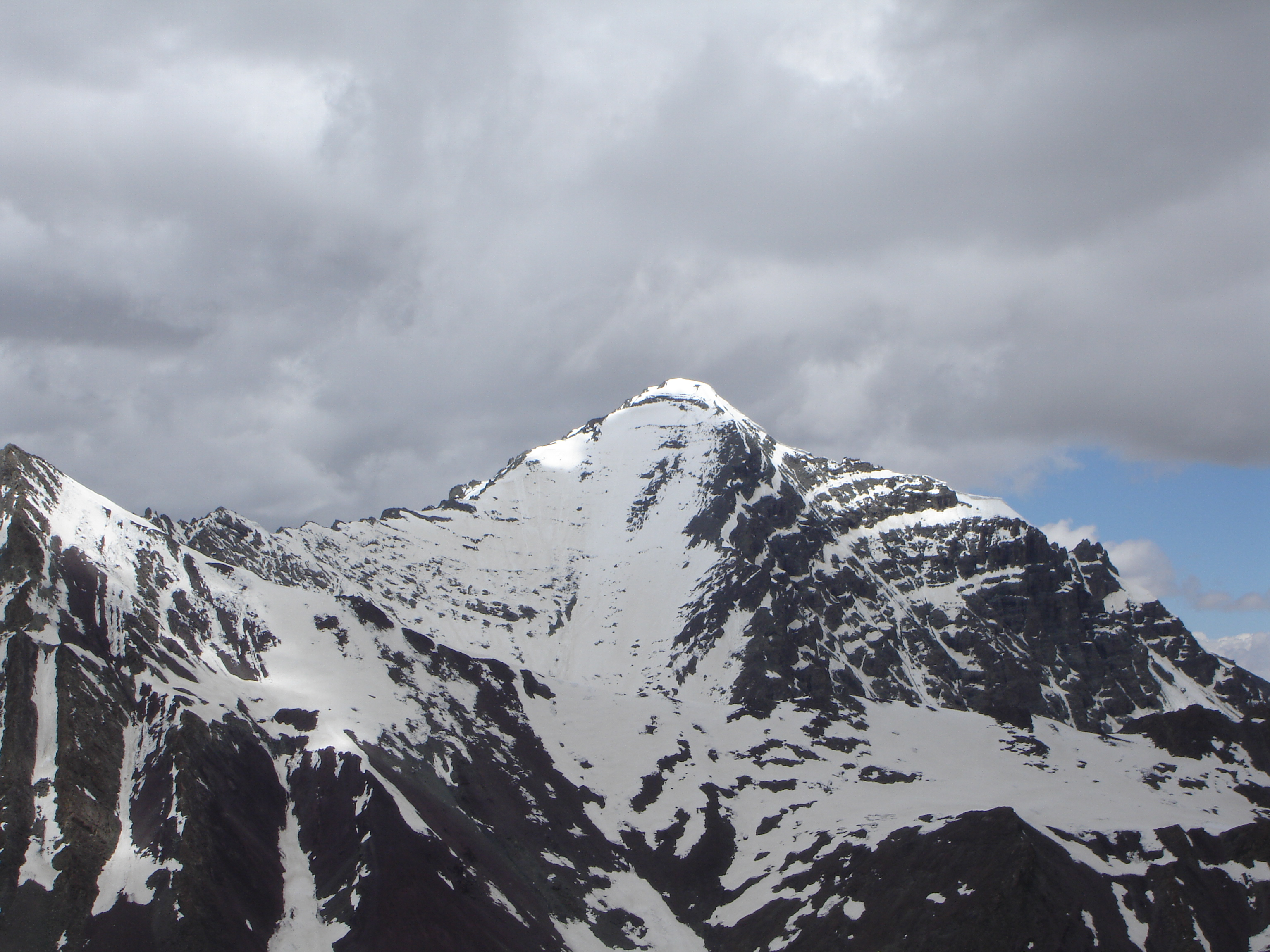 Me (uploader) created file in July 2005 Stok Kangri